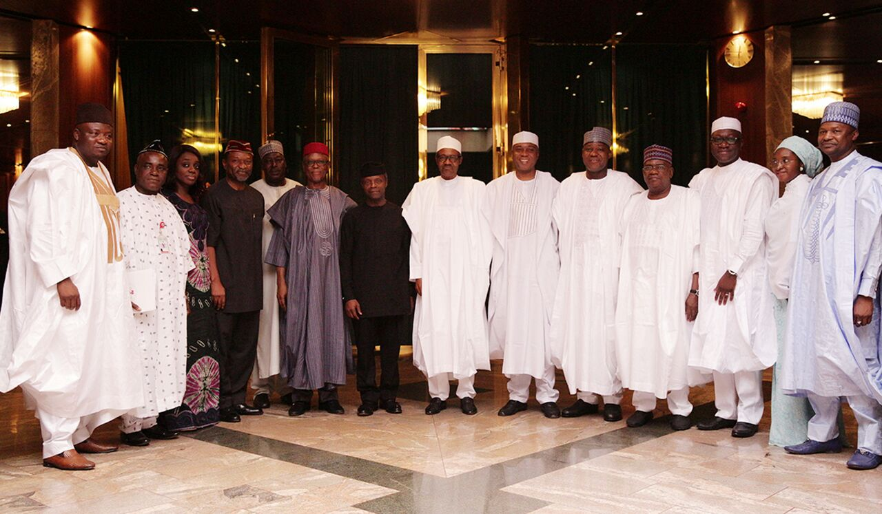 budget picture taken by myself at aso villa